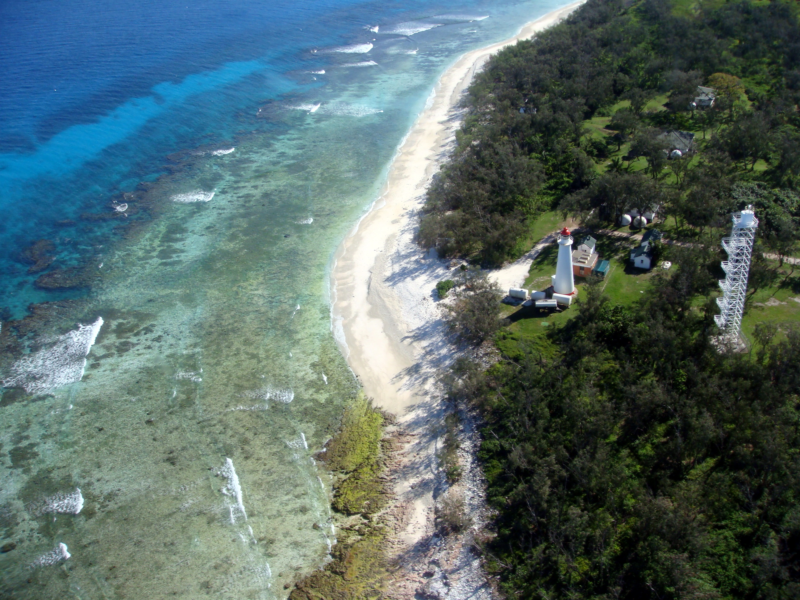 Lady Elliot Island, Lighthouse. Taken by the uploader, and released into the public domain. Location and time information in EXIF header.